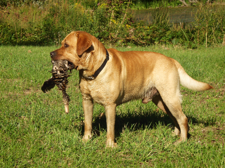 Wayfield's Young Argos, UD, JH, RE, NA, NAJ, ThD, WC, NAC, NJC, CL3-R, CL2-H, CL2-F, CL1-H, TDI, a fox red, English line Labrador retriever, returns from a successful pond retrieve.